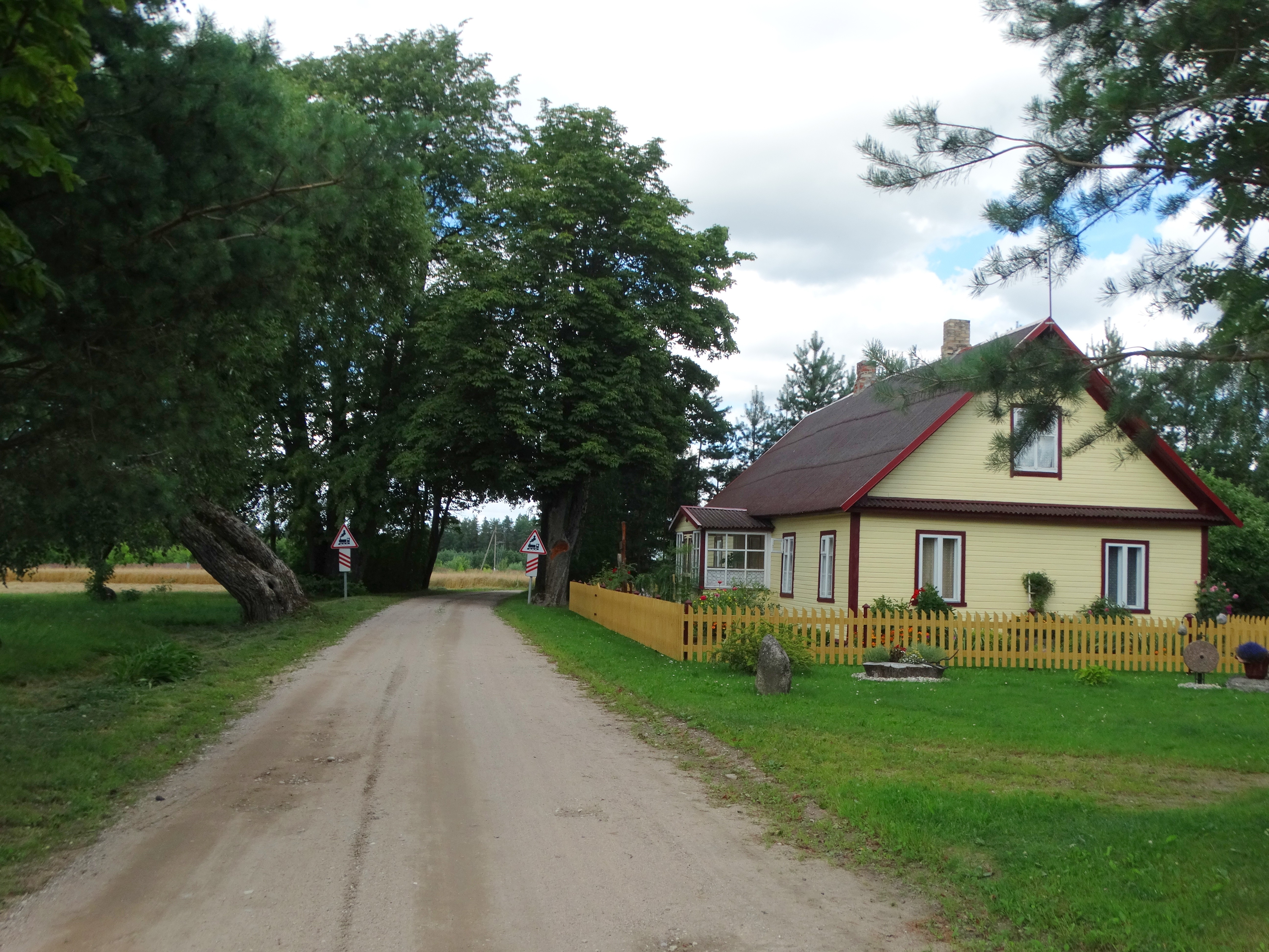 Patrakiai, Panevėžys district, Lithuania